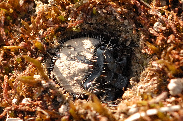 Cicindela campestris from Commanster, Belgian High Ardennes .